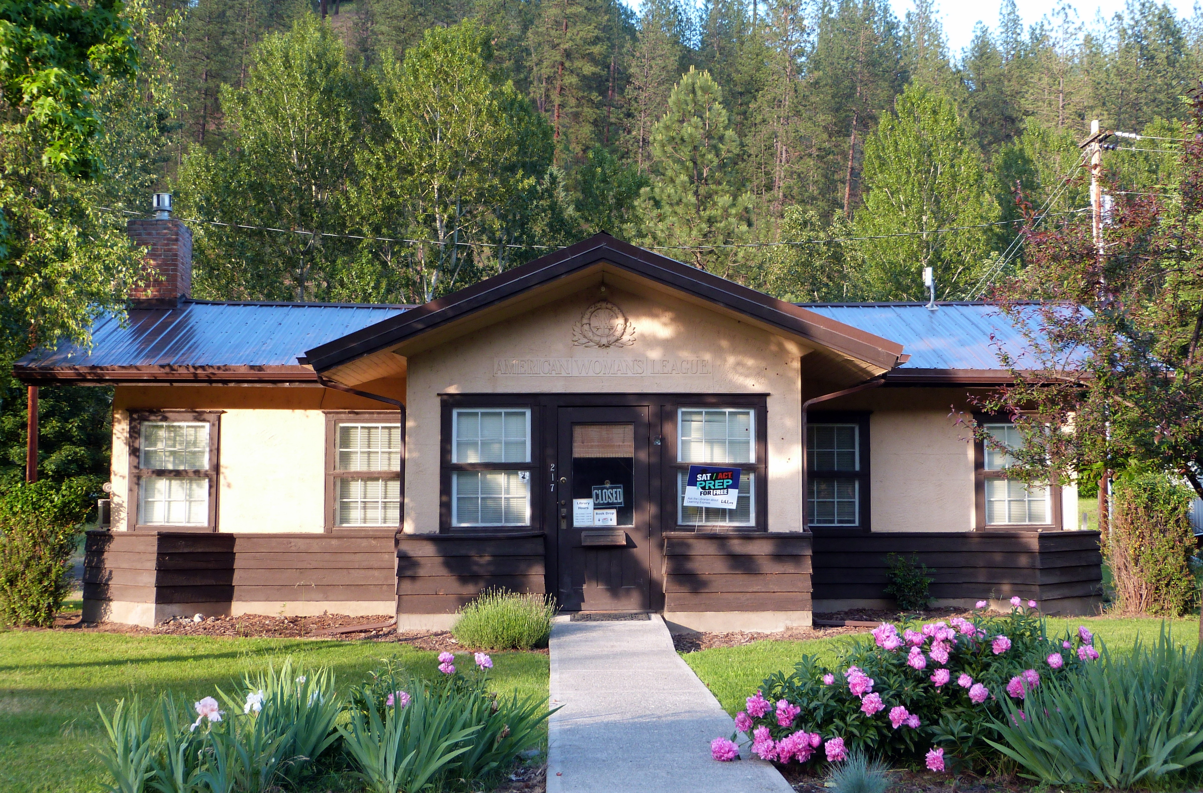 The historic American Women's League Chapter House (built 1909), located at 217 North Main Street in Peck, Idaho, United States, is listed on the US National Register of Historic Places. As of the photo date, the building is in use as the Peck Community Library.